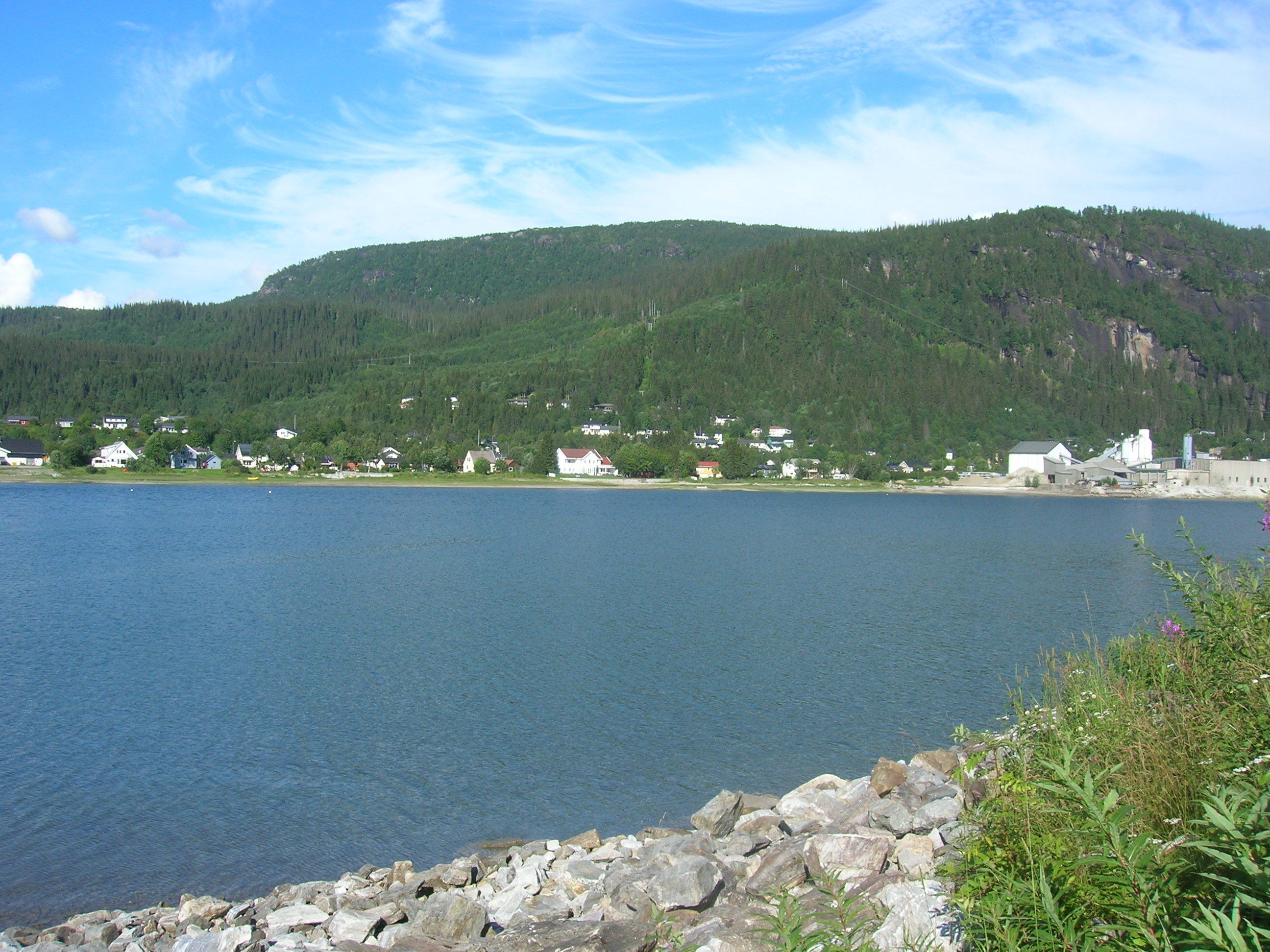 Photos taken with a Nikon Coolpix 5600 5,1 Megapixel camera during a walk along the breakwater between Ytteren and Mjølan on August 8, 2010.